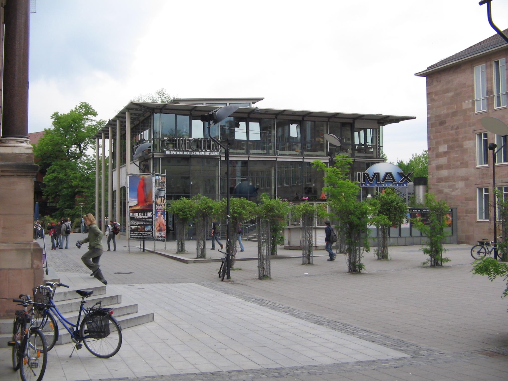 The foyer of the cinema Cinecittà in Nuremberg